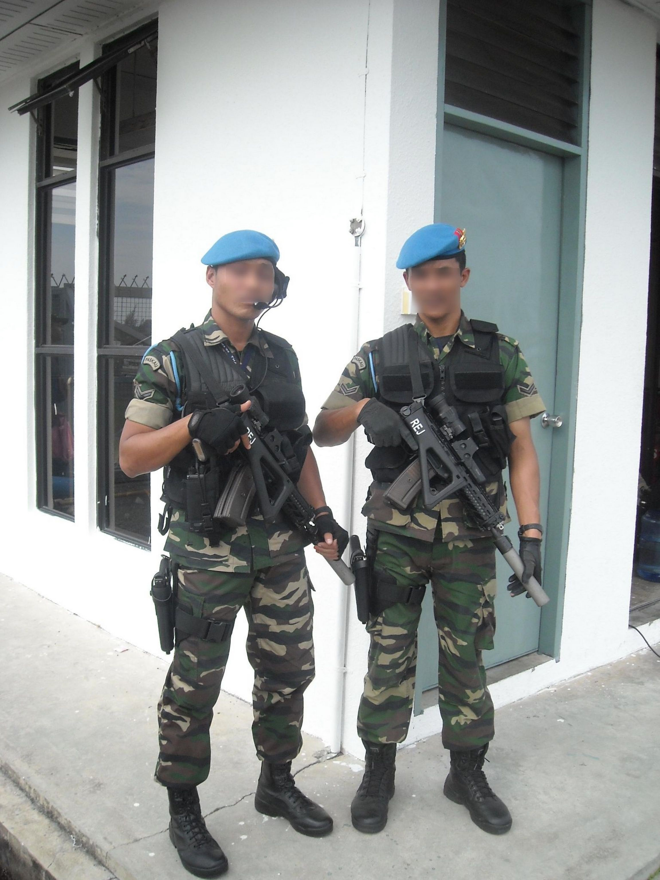 Two officers from Force Protections Team of PASKAU, on patrol at Langkawi Airport security gate during the Langkawi International Maritime and Aerospace Exhibition 2009 or LIMA 2009 at Langkawi Airport. They are armed with the SIG SG 553SB assault rifles and equipped with EOTech holographic sight and Brügger & Thomet suppressor. Taken by me at Langkawi Airport, Langkawi, Kedah, Malaysia.